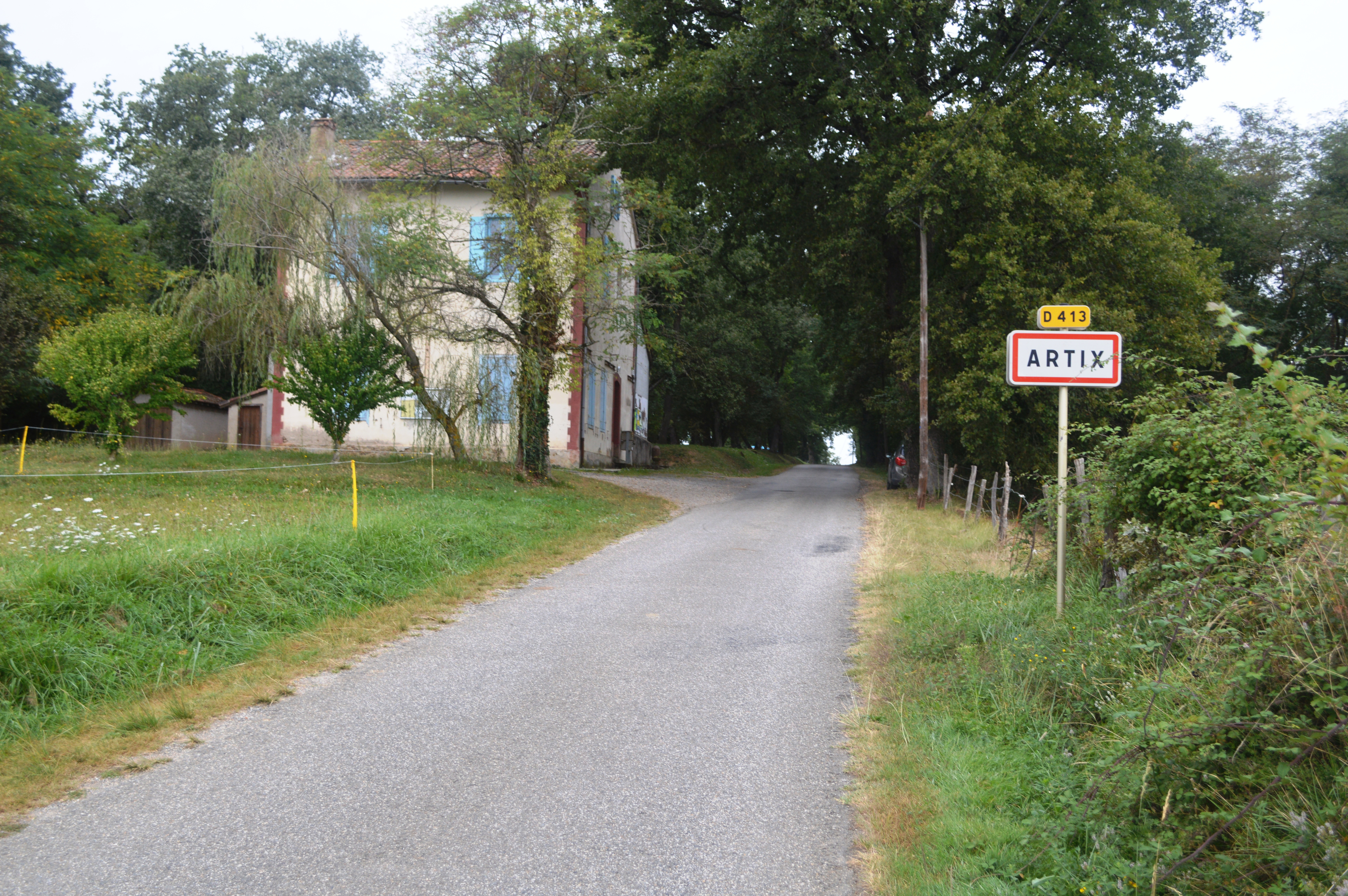 Entry to Artix